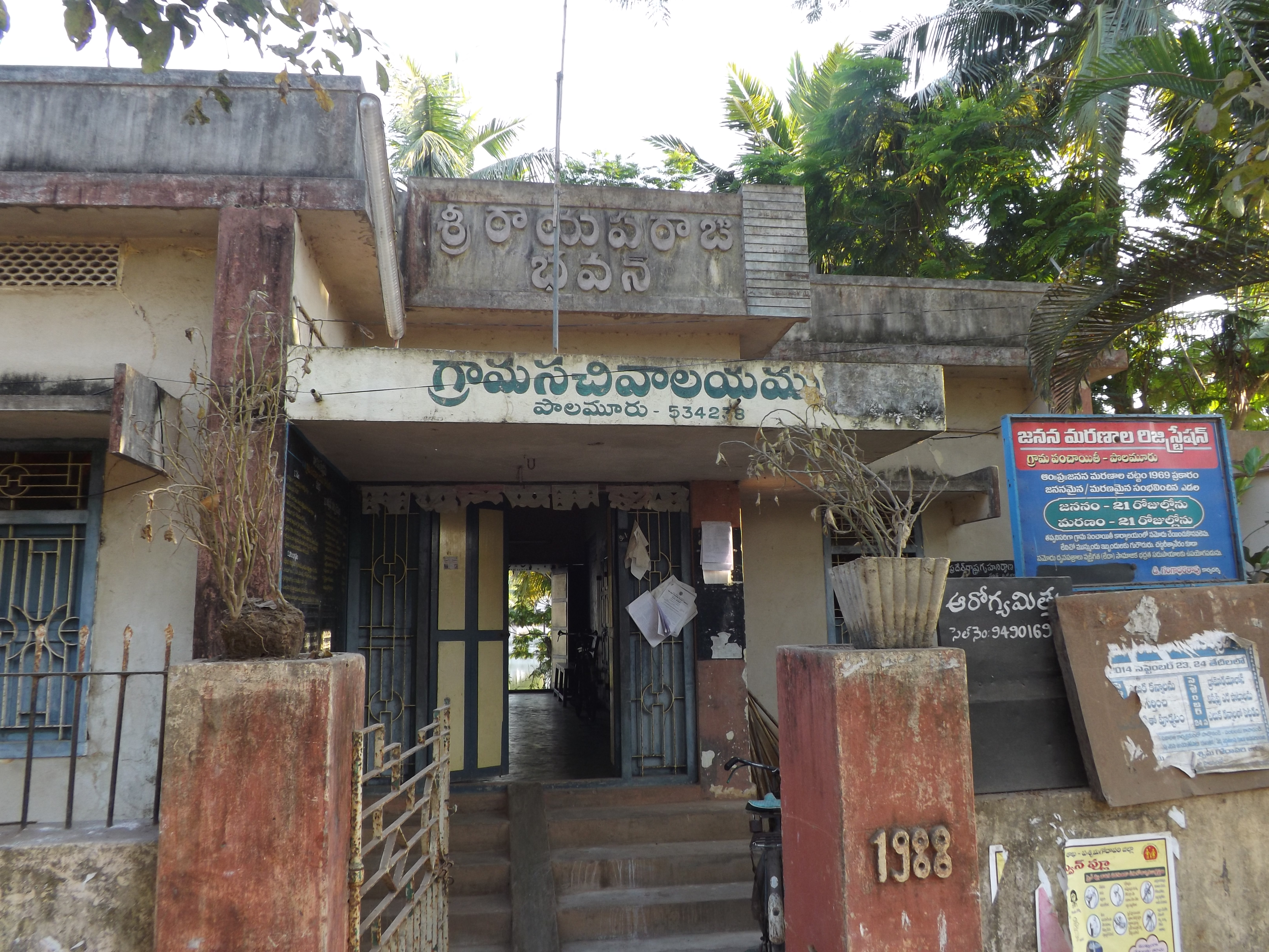 A.P. Village Polamooru Panchayat affice